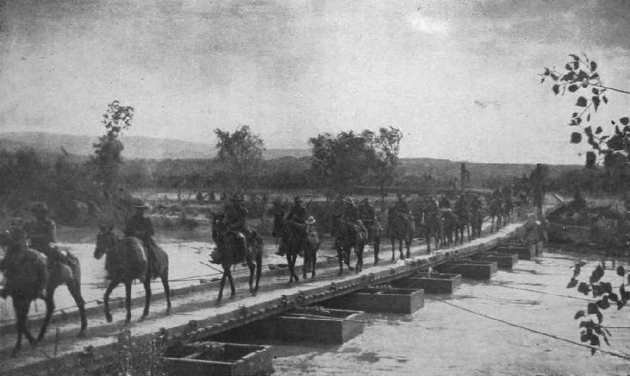 New Zealanders crossing the Jordan after the first attack on Amman.